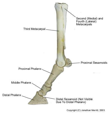 This is a lateral (side) view of the bones of the equine forelimb, distal to the carpus. The bones are labelled in English (maybe somebody could also label the joints too? - I'll get around to it sometime).